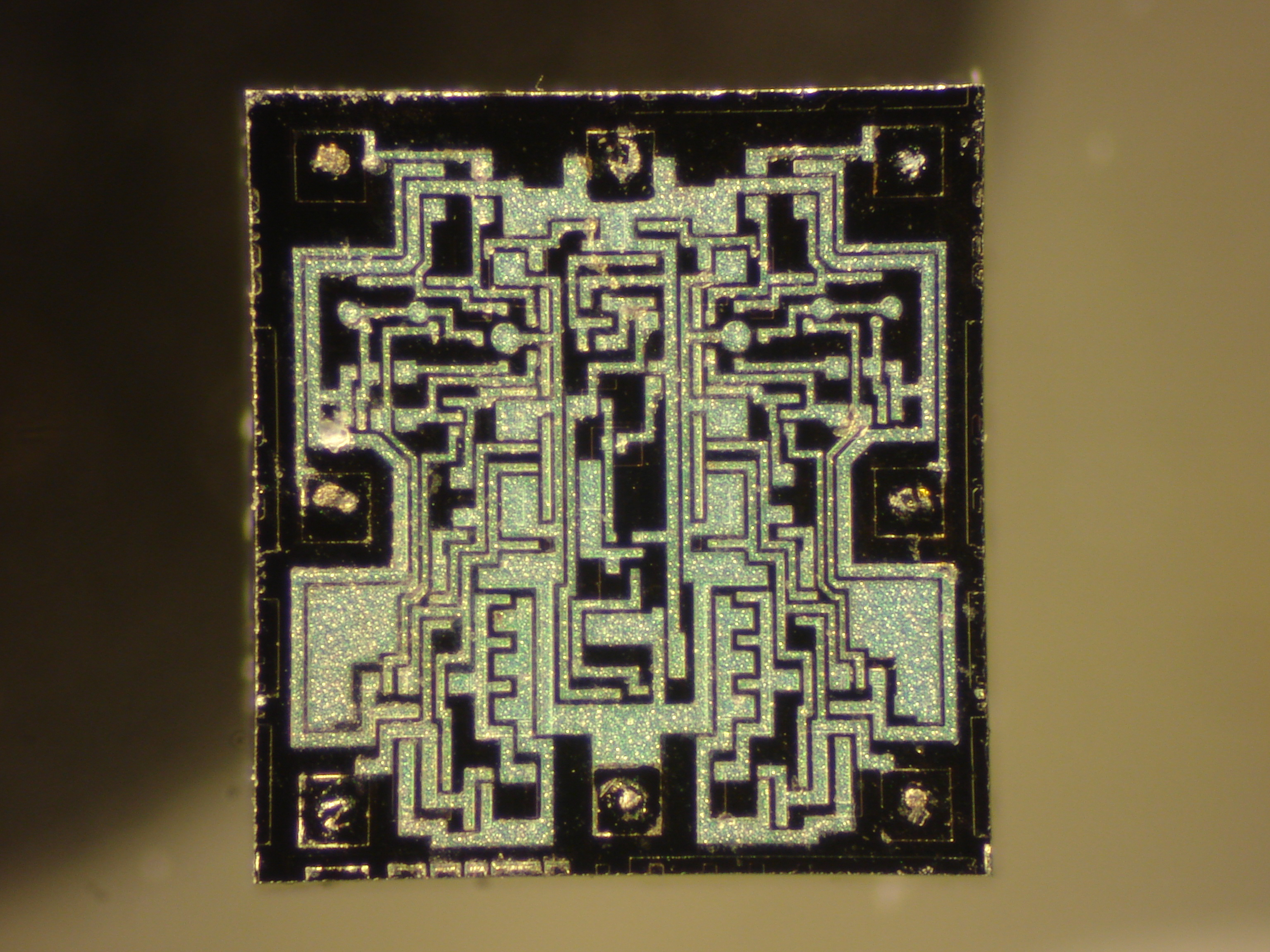 UTC PL0B LM358 JC N5